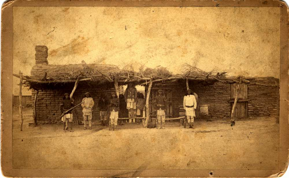 Guard House in San Carlos, Arizona "Wearing military coats, these Indian Agency policemen were appointed by the Reservation's Indian Agent to maintain law and order among the tribe. Criminals were tried before Apache judges and juries of clan headmen." Photograph by Camillus S. Fly.